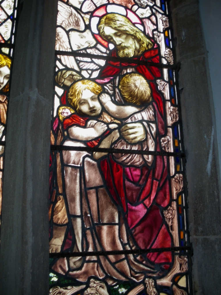 Paul Woodroffe's 1902 Two Light Stained Glass Window in St Ethelbert's Church in Herringswell. Suffolk. Entitled "Suffer little children". In the right hand light Jesus gathers children to Him and in the left hand light is a mother with more children. Both lights are framed with a band of Celtic foliage scrolls. Here we see the right hand light.